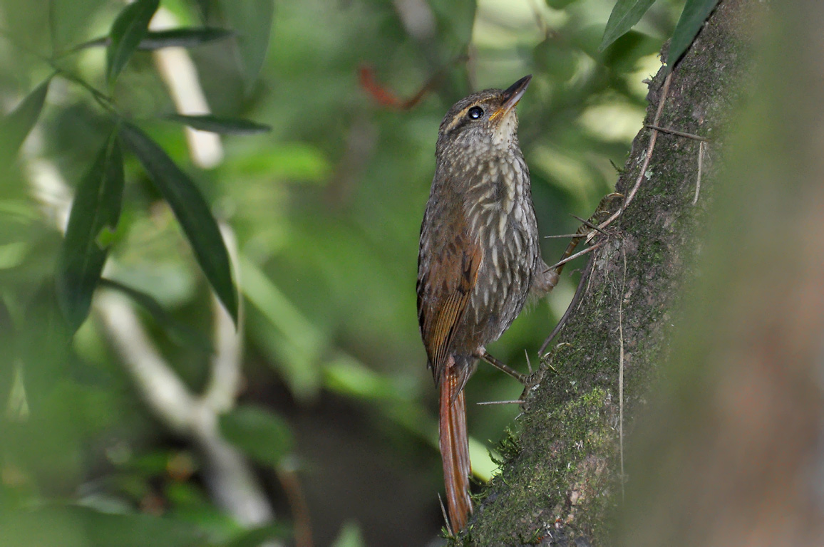 Syndactyla rufosuperciliata subsp. acrita juvenile photographed in Rio Grande do Sul, Brazil, in March 2011.